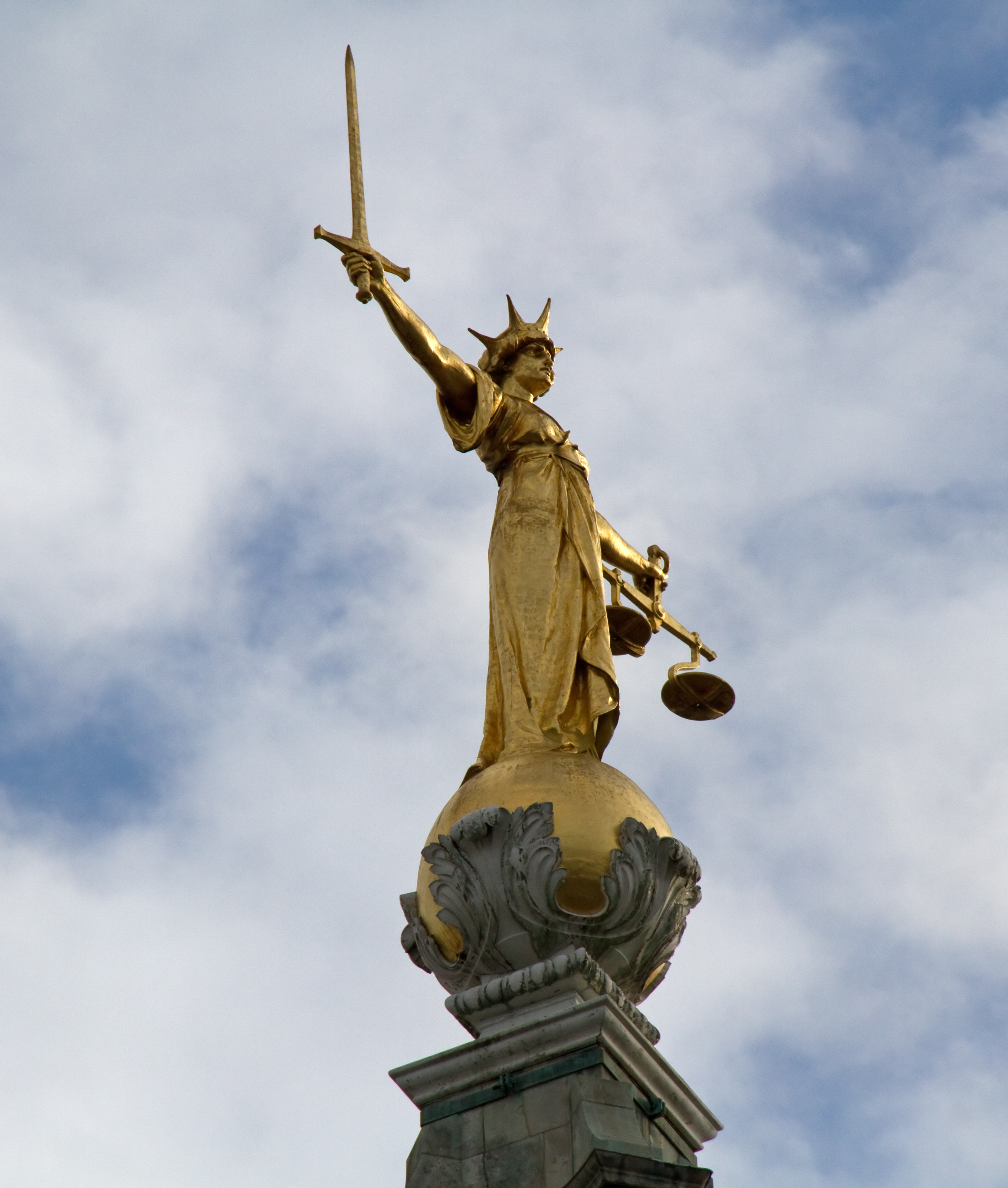 Justice